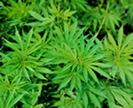 Cannabis from